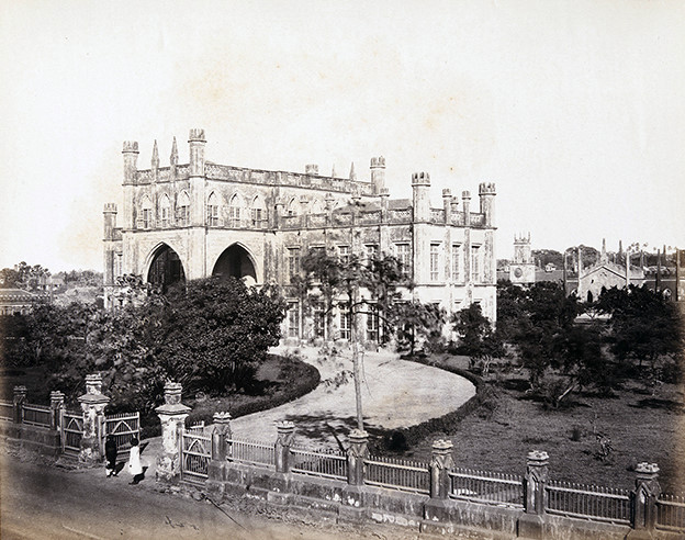 Title: Grant Medical College, Bombay Creator: Hinton, Henry [attributed] Date: ca. 1855-1862 Series: Photographs of Western India. Volume II. Scenery, Public Buildings, &c. Part of: Photographs of Western India Place: Mumbai, Maharashtra, India Physical Description: 1 photographic print: part of 1 volume (100 albumen prints); 20 x 26 cm on 35 x 42 cm mount File: vault_ag2002_1407x_2_093_grant_opt.jpg Rights: Please cite Southern Methodist University, Central University Libraries, DeGolyer Library when using this image file. A high-quality version of this file may be obtained for a fee by contacting . For more information and to view the image in high resolution, see: View Europe, India, and Asia: Photographs, Manuscripts, and Imprints